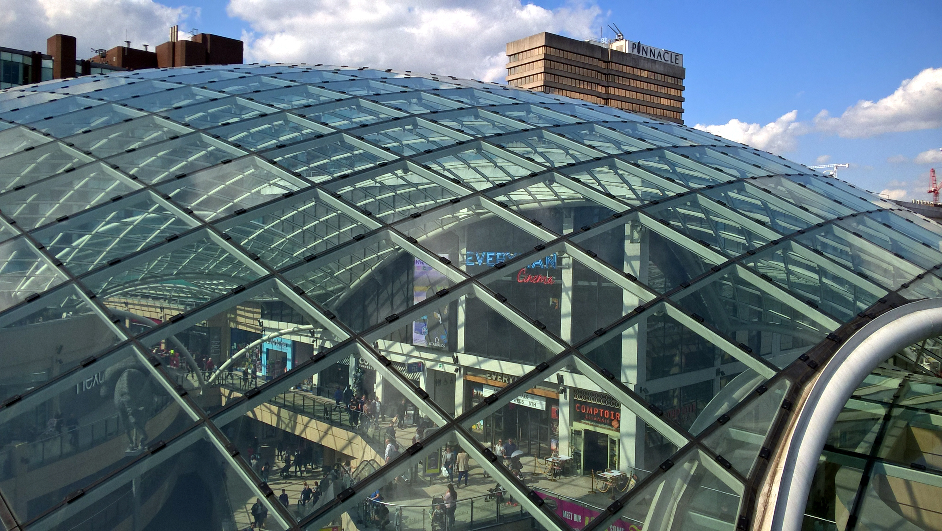 The glass roof over the Trinity Leeds shopping centre, viewed from the rooftop terrace.